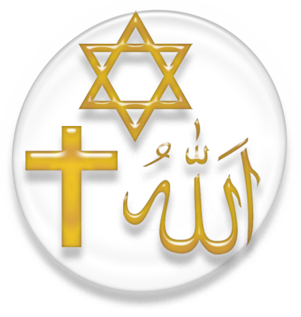 Symbol of the three Abrahamic religions.